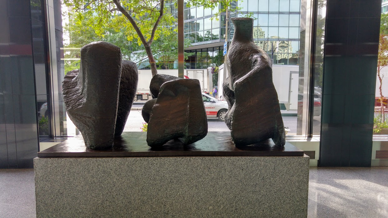 #100commonsdays challenge 2017: 1 round - day 9. Henry Moore: Three Piece Reclining bronze sculpture in Montreal, Quebec, Canada[1].